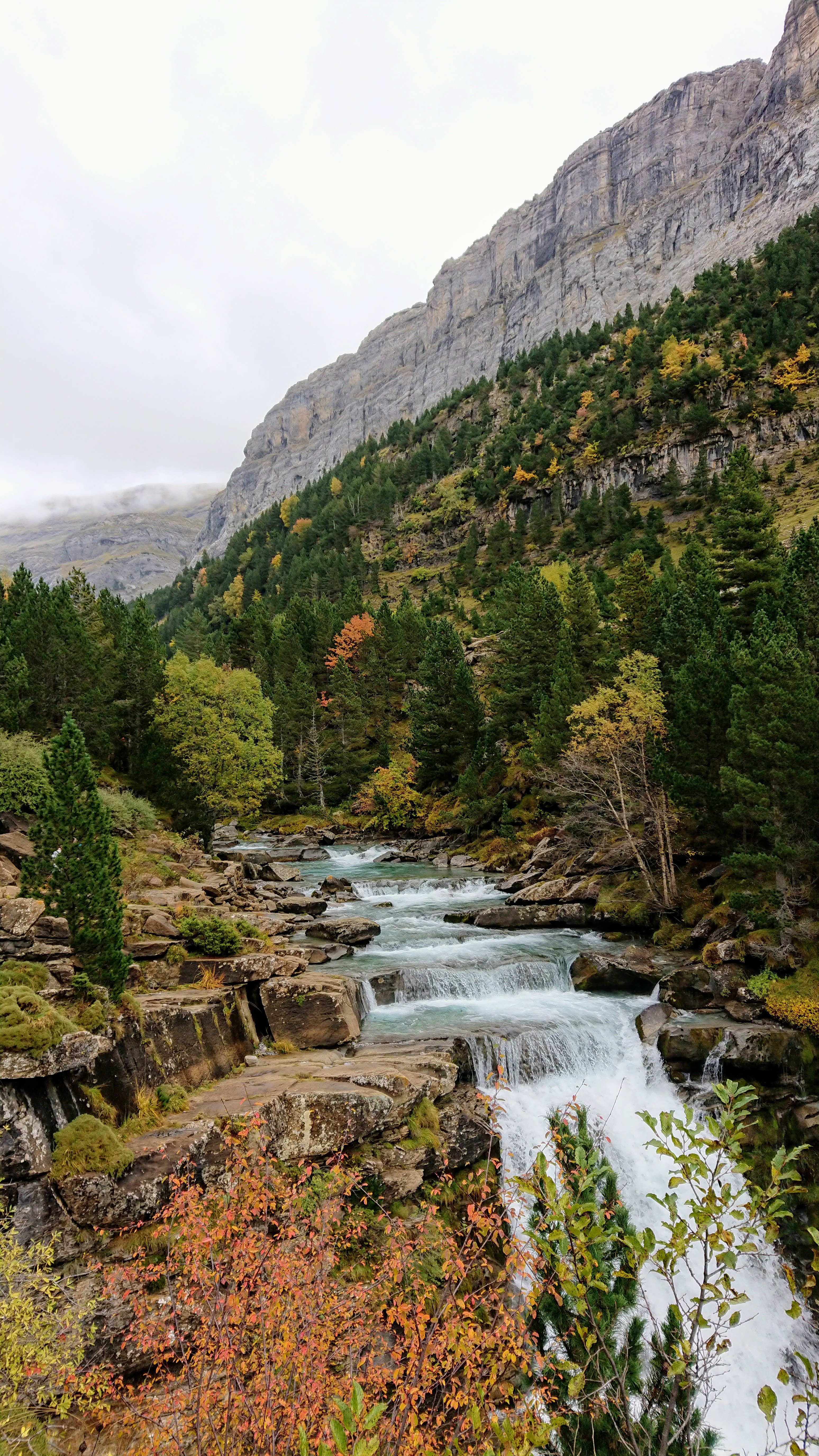 Arazas river fall 3, Ordesa y Monte Perdido National Park, Spain